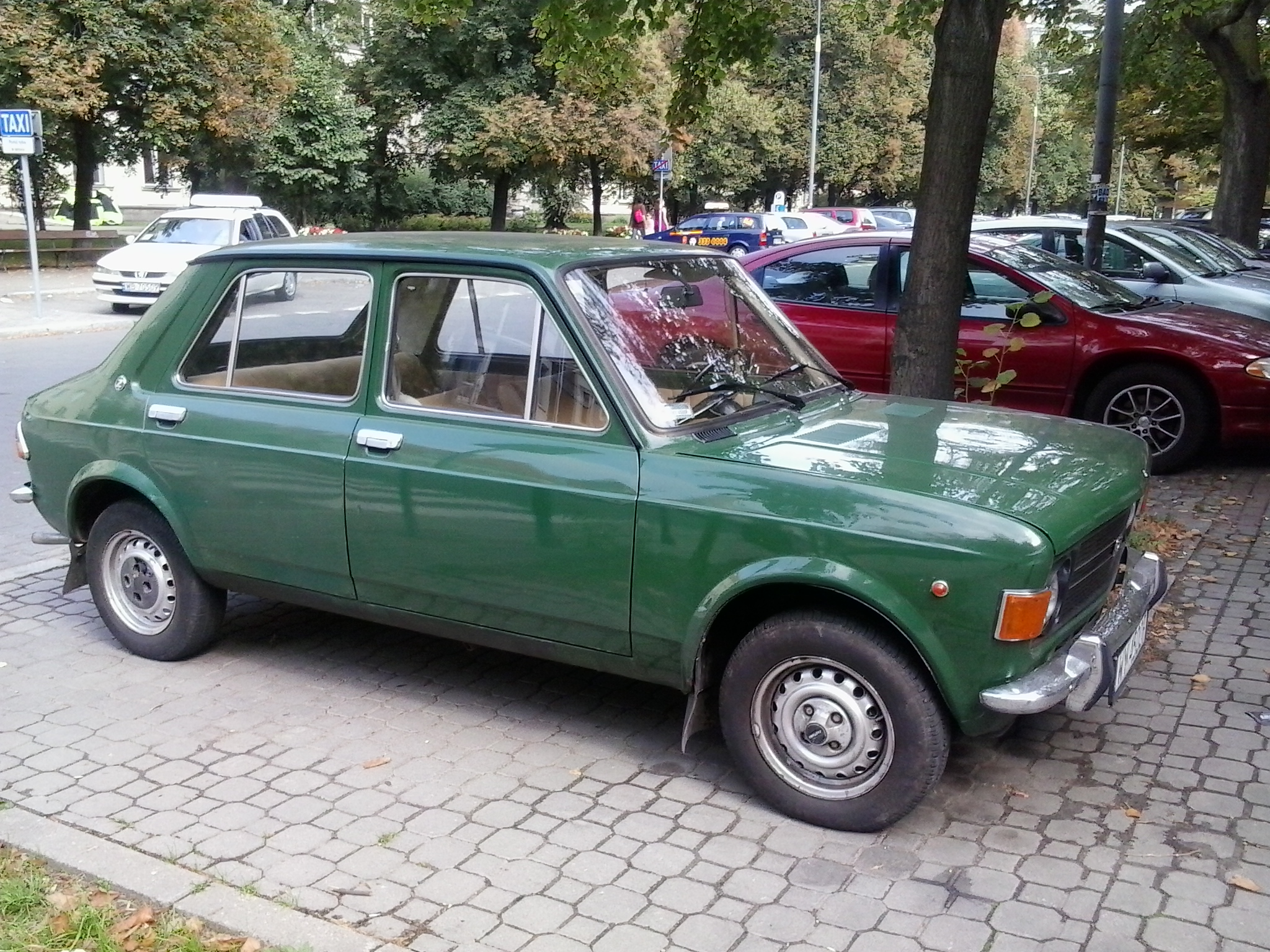 Zastava 1100p